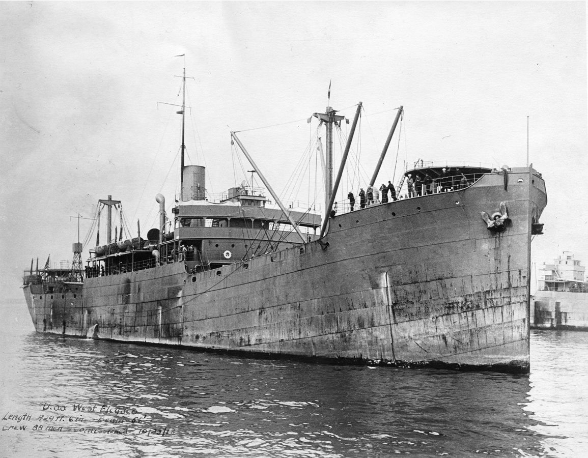 USS West Elcasco (ID-3661) arriving at Municipal Pier No. 78 at Philadelphia, on 7 March 1919.